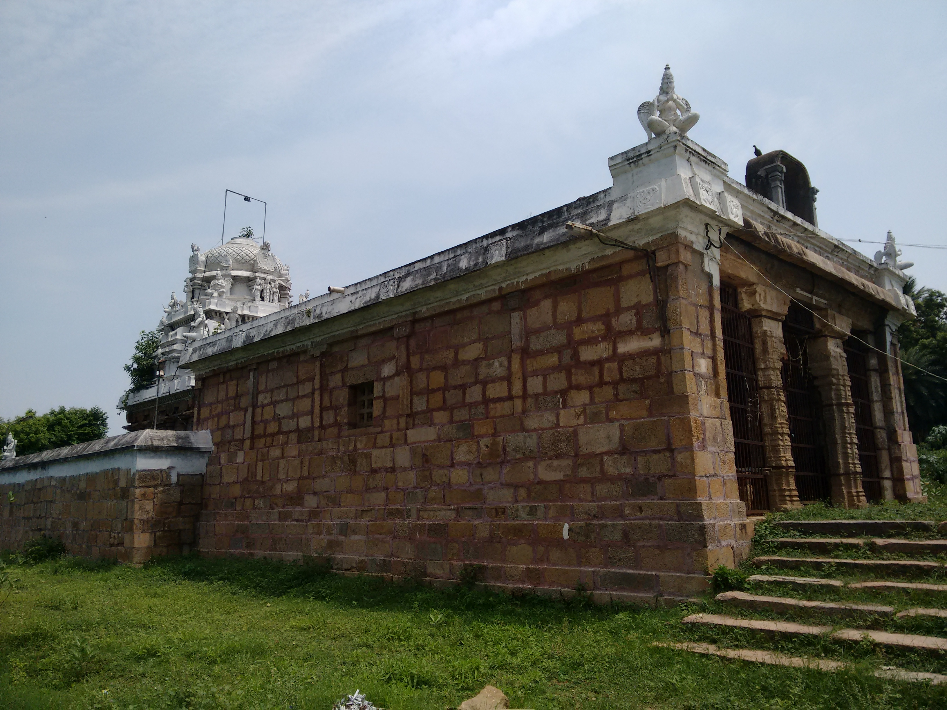 gopinathaperumalkovil near pattisvaram பட்டீஸ்வரம் அருகே கோபிநாதப்பெருமாள்கோயில்